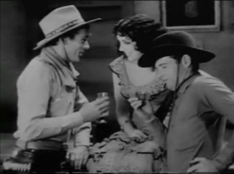 Screenshot from the 1929 film The Virginian with Gary Cooper and Nina Quartero.